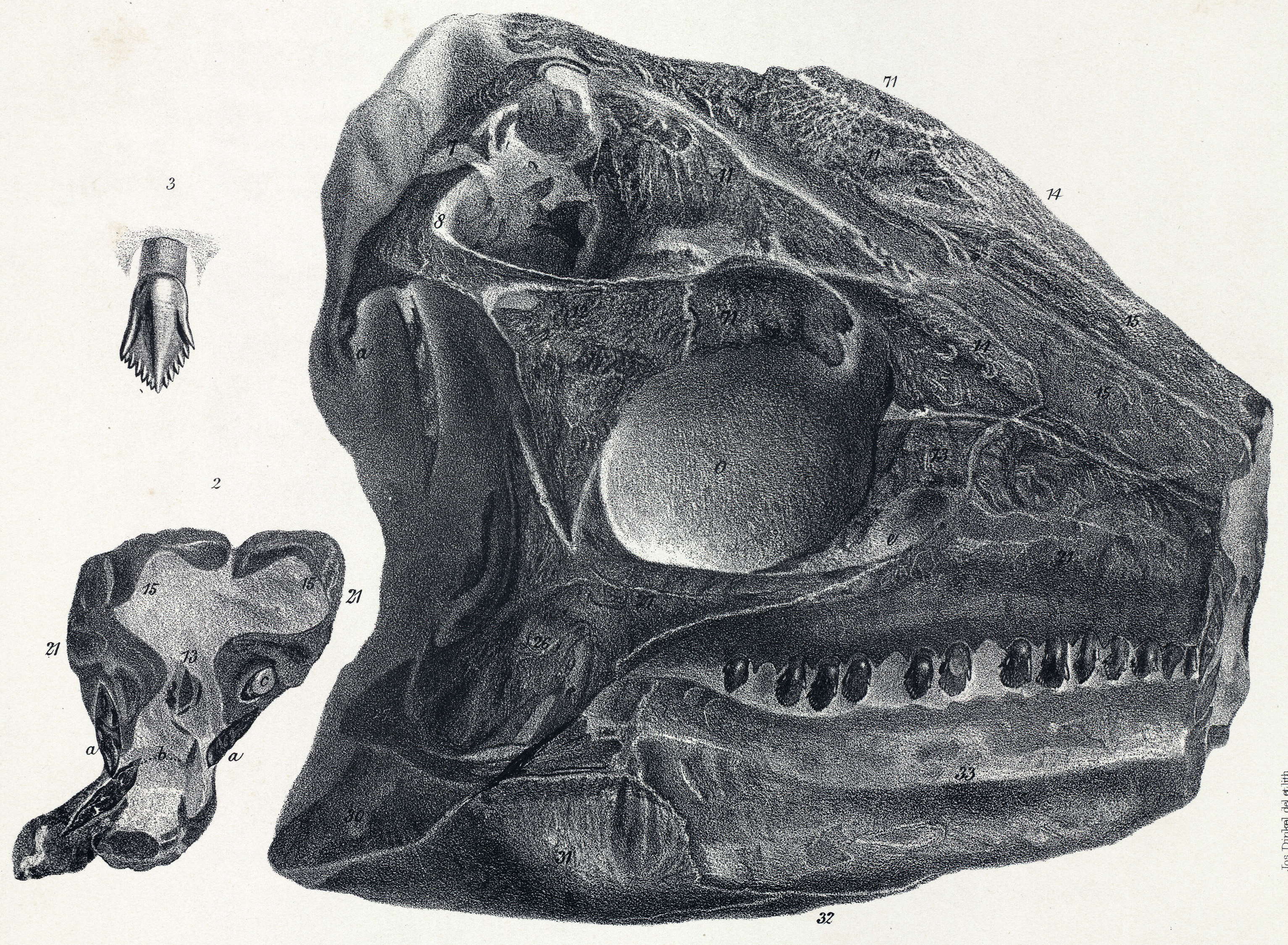 Scelidosaurus Harrisonii. Fig. 1. Side view of part of skull; natural size. Fig. 2. The fractured fore-end of the same skull, showing teeth in their sockets. Fig. 3. Outer side of tooth of the upper jaw, magnified. The skeleton which afforded the subjects of Plates 46-58 was discovered by James Harrison, Esq., in the Lower Lias of Charmouth, Dorsetshire. The fossils are in the British Museum of Natural History.